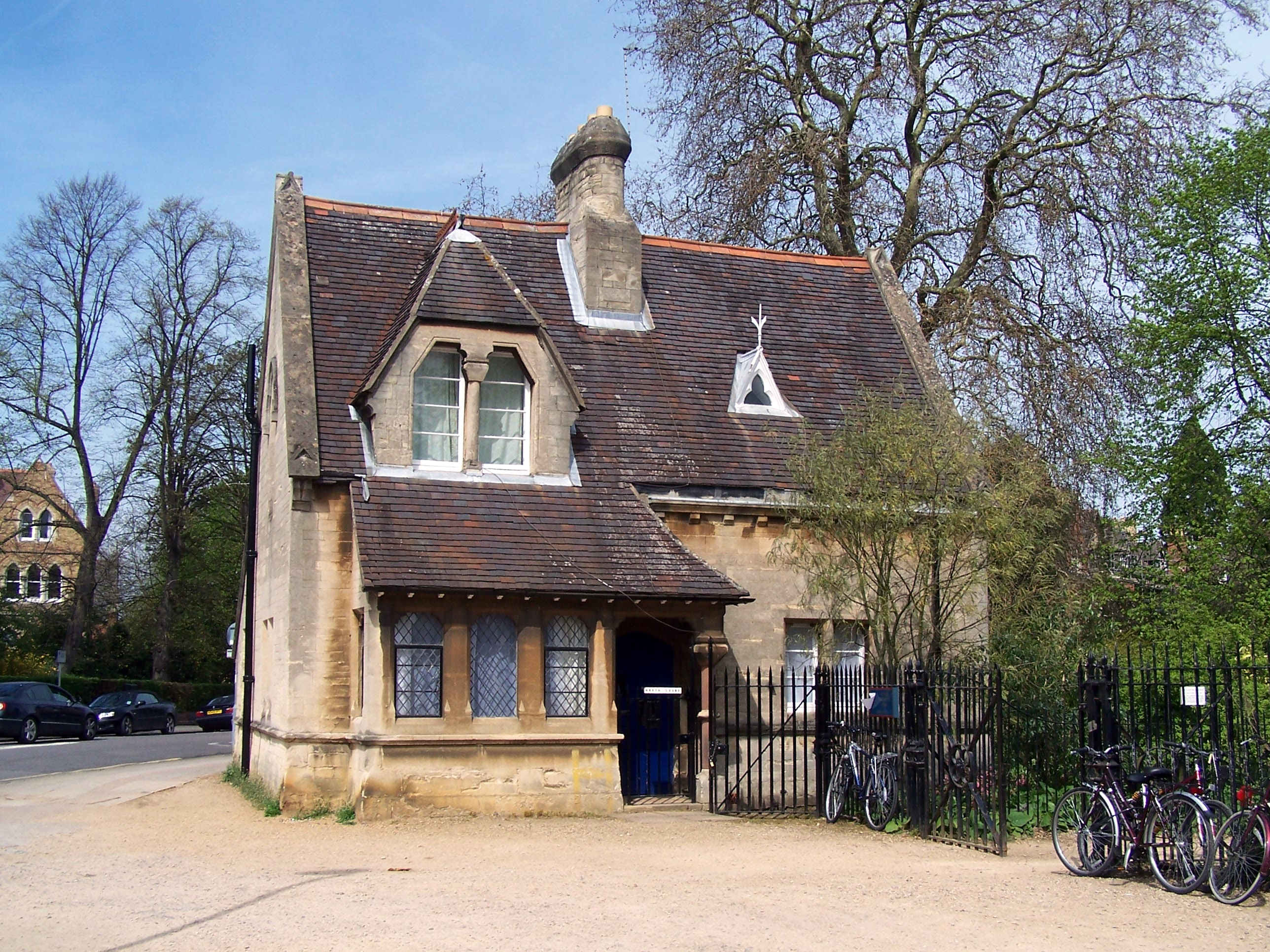 The North Lodge of the Oxford University Parks, on the junction between Parks Road and Norham Gardens.